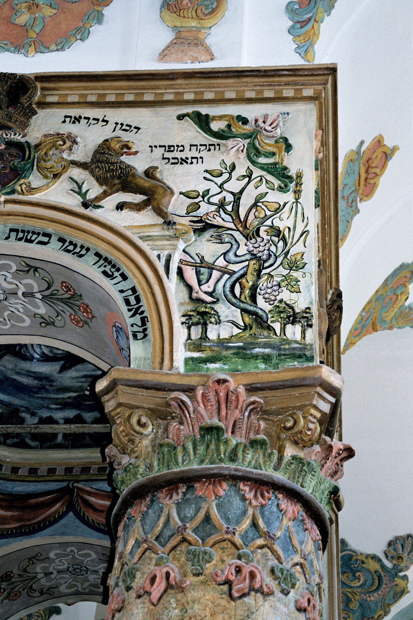 Synagogue in Łańcut